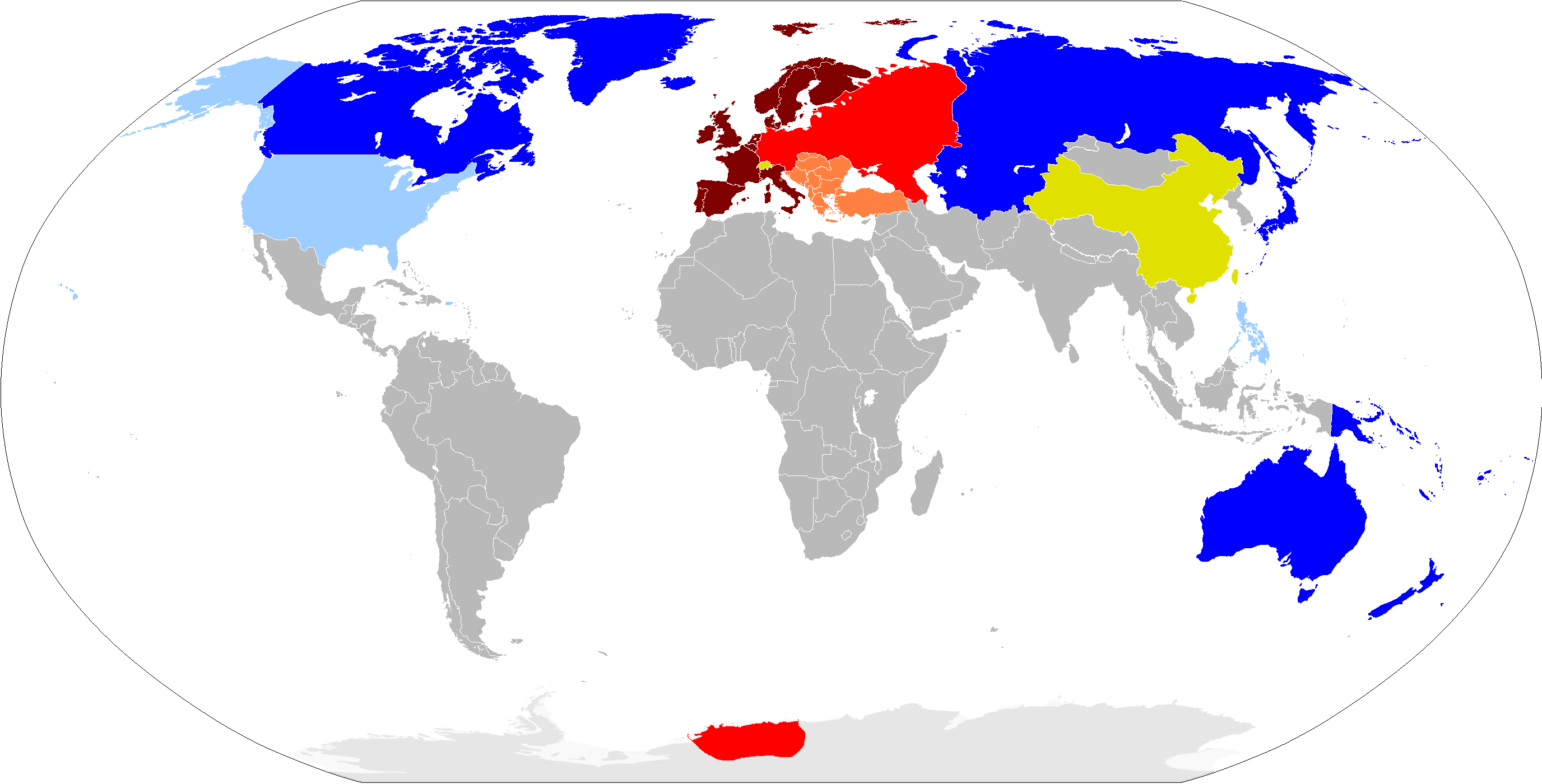 The world in 1964, according to the alternate history of Robert Harris's novel Fatherland. Keys: Red: Nazi Germany; Dark Red: German sphere of influence (European Community); Light Blue: USA and territories; Dark Blue: US allies and partners; Yellow: Republic of China; Grey: Not discussed. NB: The exact status of the European empires is unclear; the empires may have broken apart, may still exist, or may exist in a smaller/larger form than in our timeline.